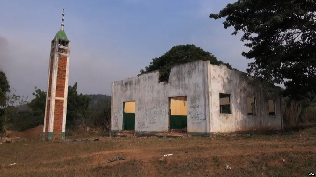 Mosque in the town of Boali, Central African Republic.